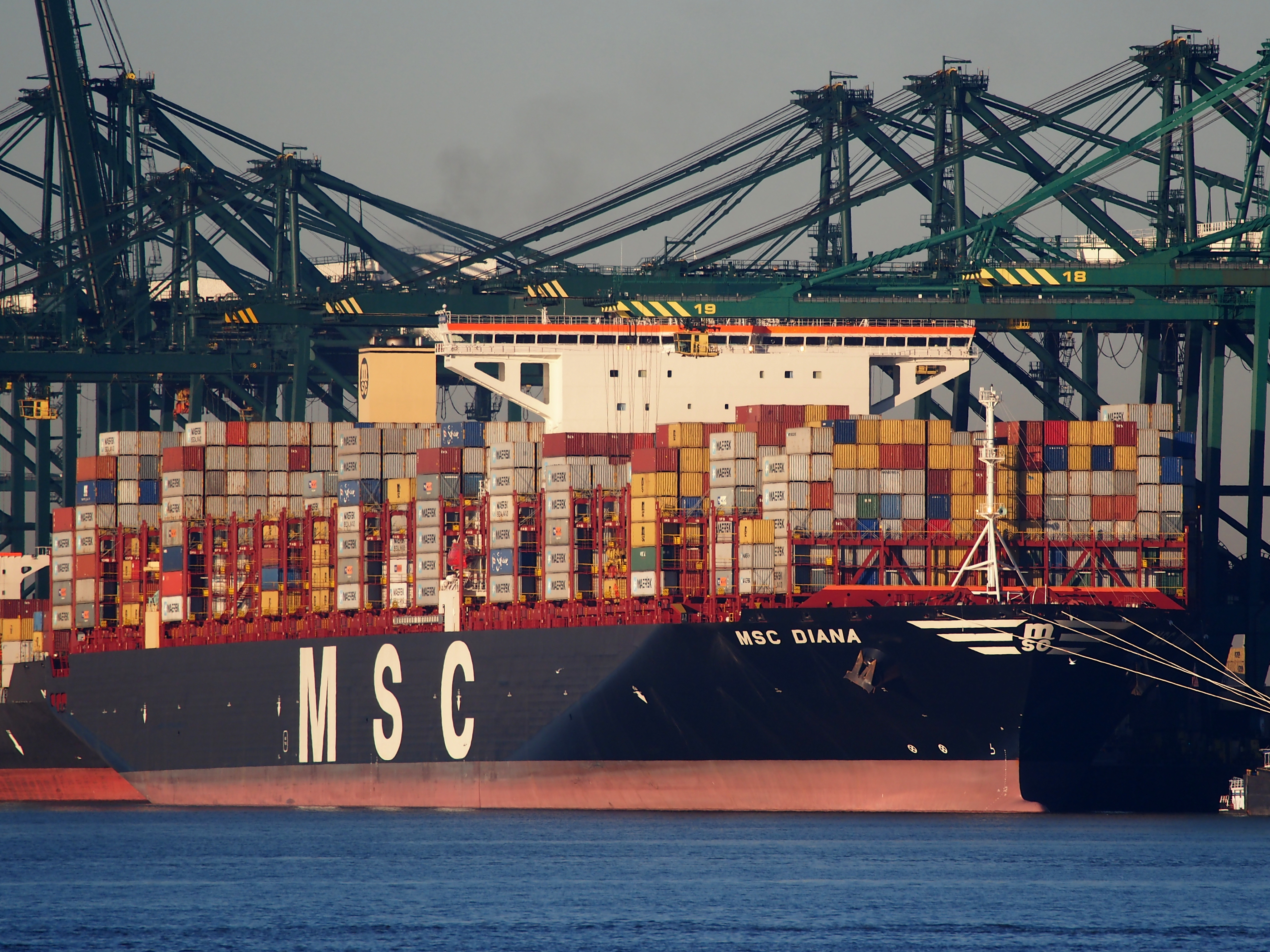 Photographed in the Port of Antwerp, Belgium. OLYMPUS DIGITAL CAMERA